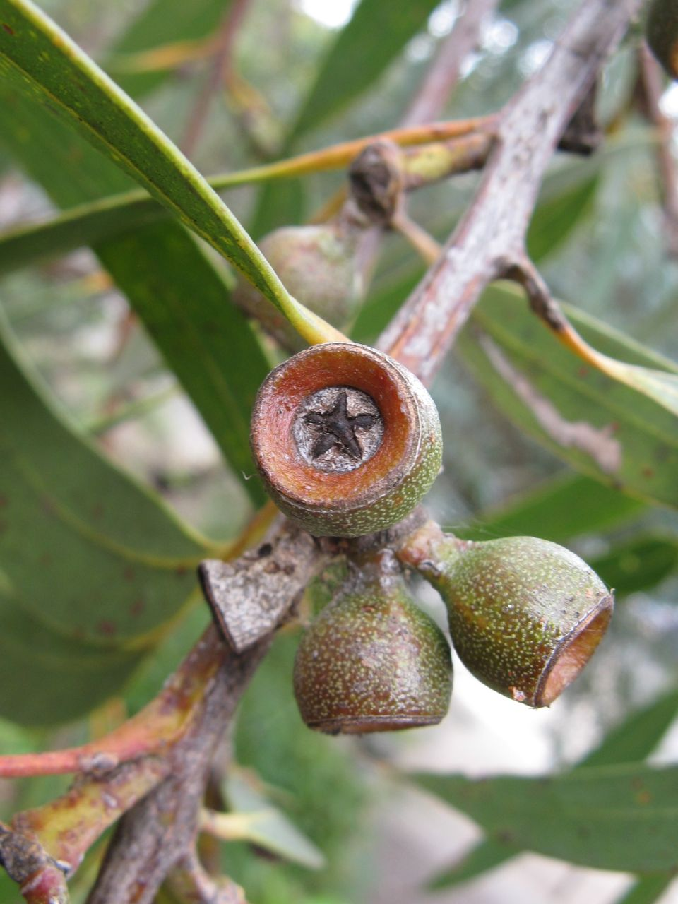 Eucalyptus langleyi, Australian National Botanic Gardens, Canberra